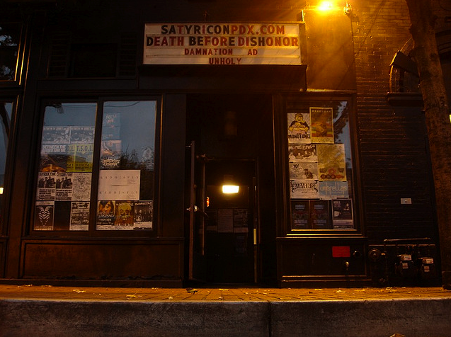 Photo of the front of the Satyricon nightclub in October 2007.